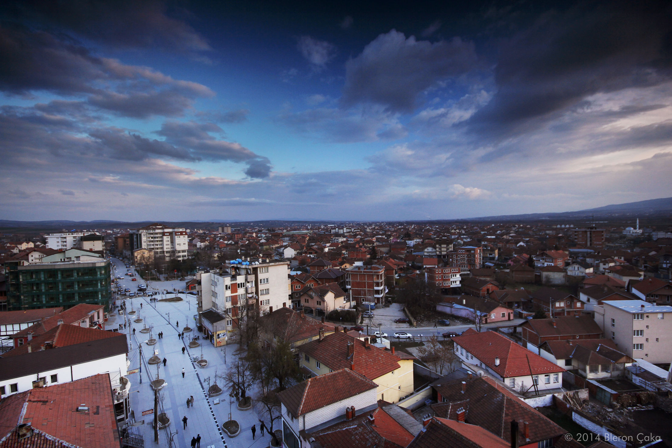 Vushtrri